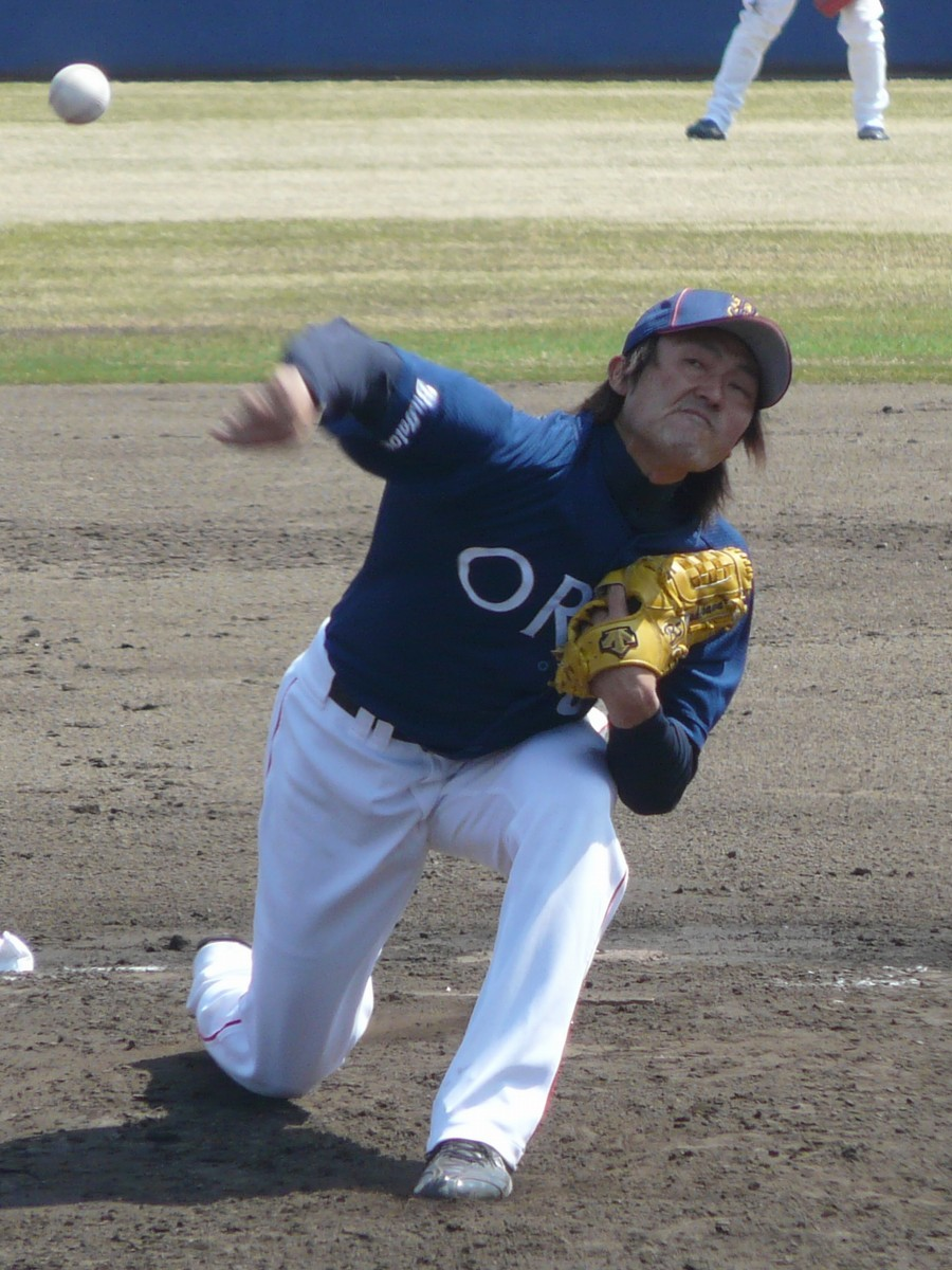 Masato Nishikawa